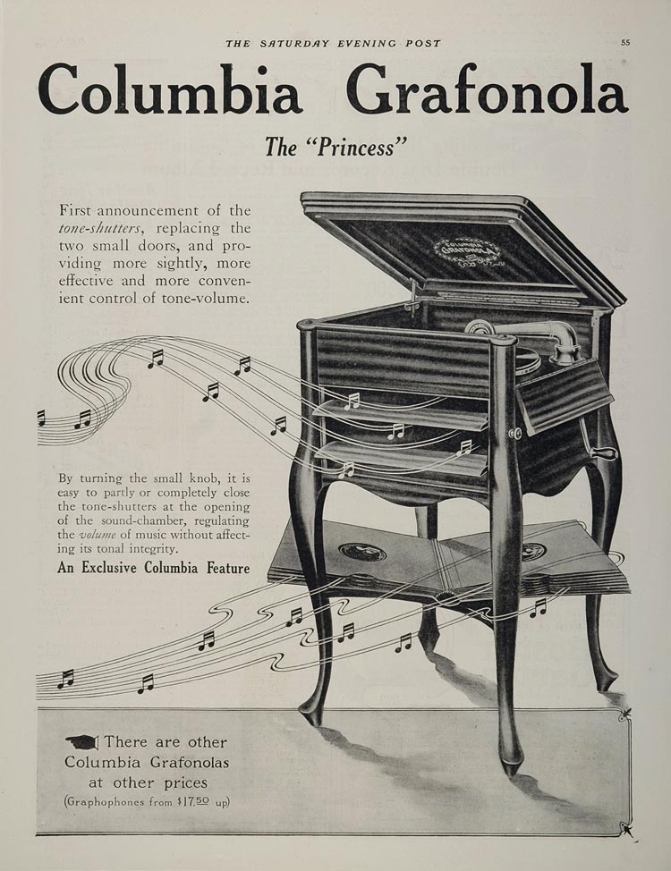 Columbia Grafonola. 1912 phonograph advertisement showing the "Princess" model of "Grafonola" brand phonograph.